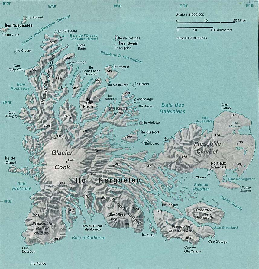 Map of the Kerguelen Islands in the southern Indian Ocean